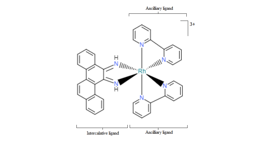 Rhodium metallo-intercalator